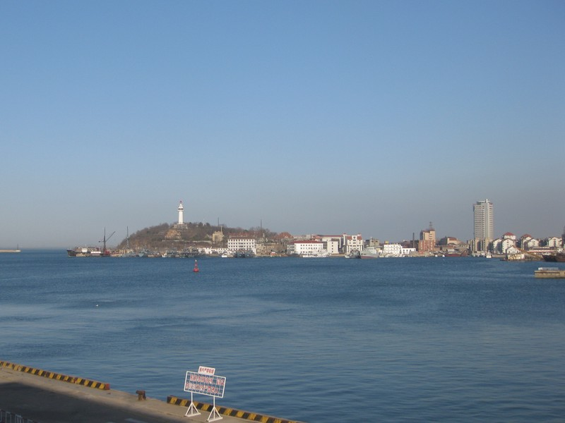 View of Yantai Hill from ancient passenger corridor of Yantai Port